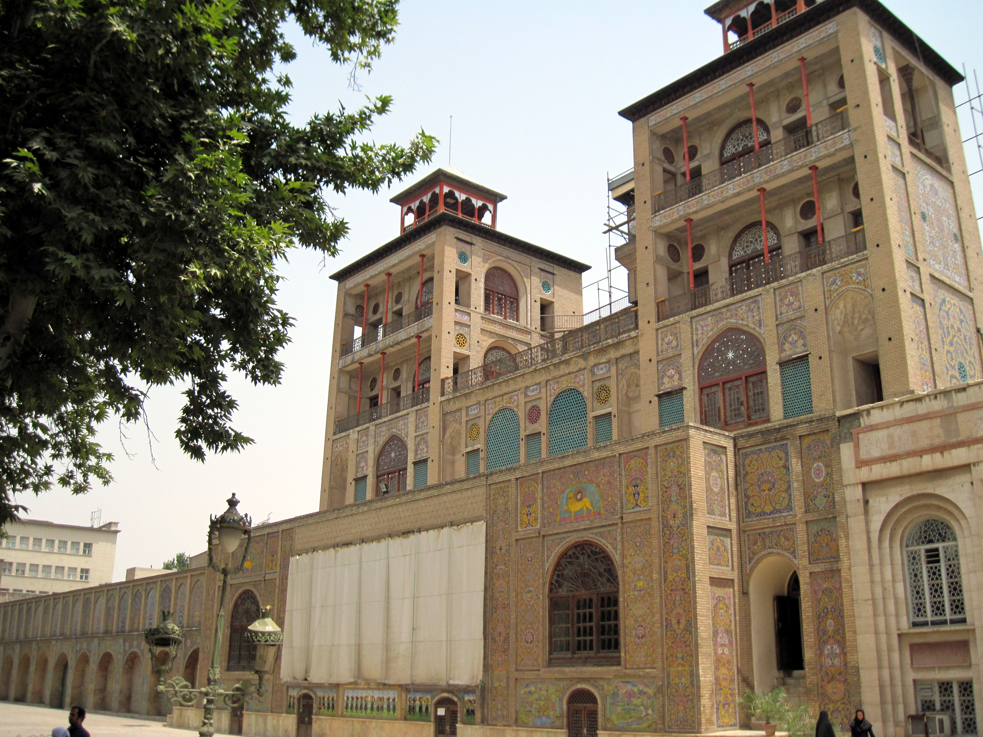 Shams-ol-Emareh, Golestan Palace, Tehran, Iran.